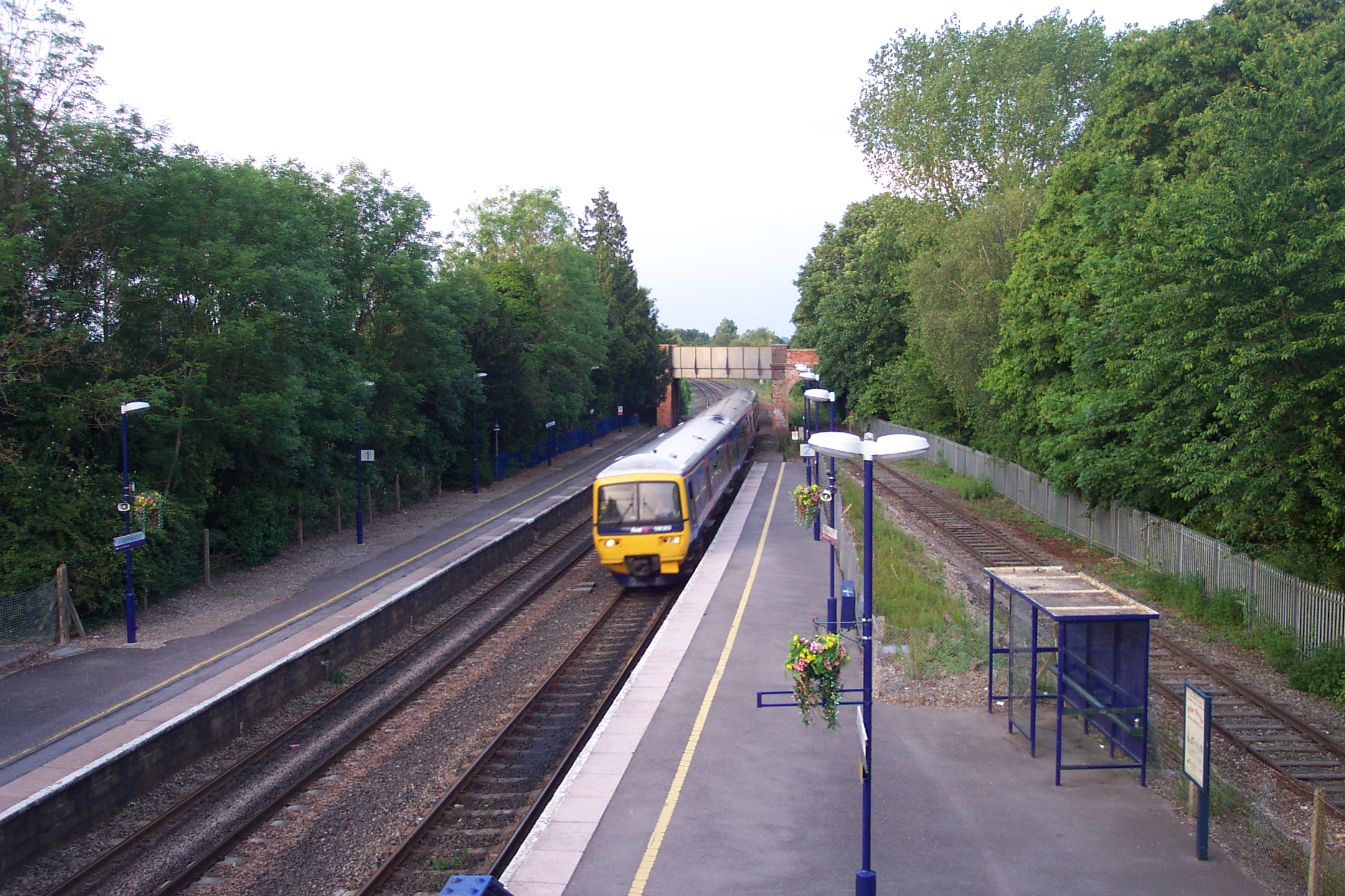 Aldermaston railway station, from the station footbride. A Network Turbo train of Great Western Trains is passing through the station. For more information see the Wikipedia article Aldermaston railway station.